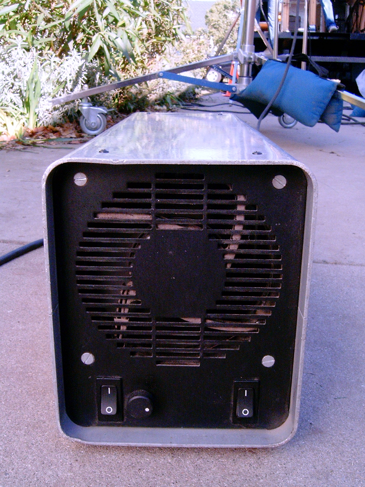 An HMI ballast box. In the background, you can see the base of a high roller that is supporting this HMI.